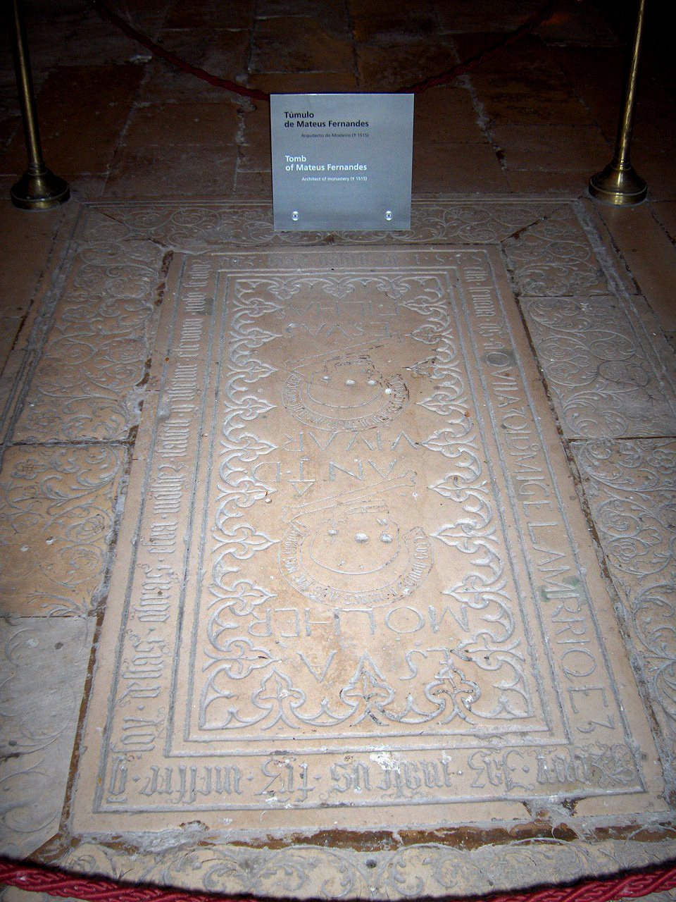 Tomb of Mateus Fernandes, in the church of the Monastery of Batalha, Portugal. As one of the architects of the monastery, he applied the Manueline style.